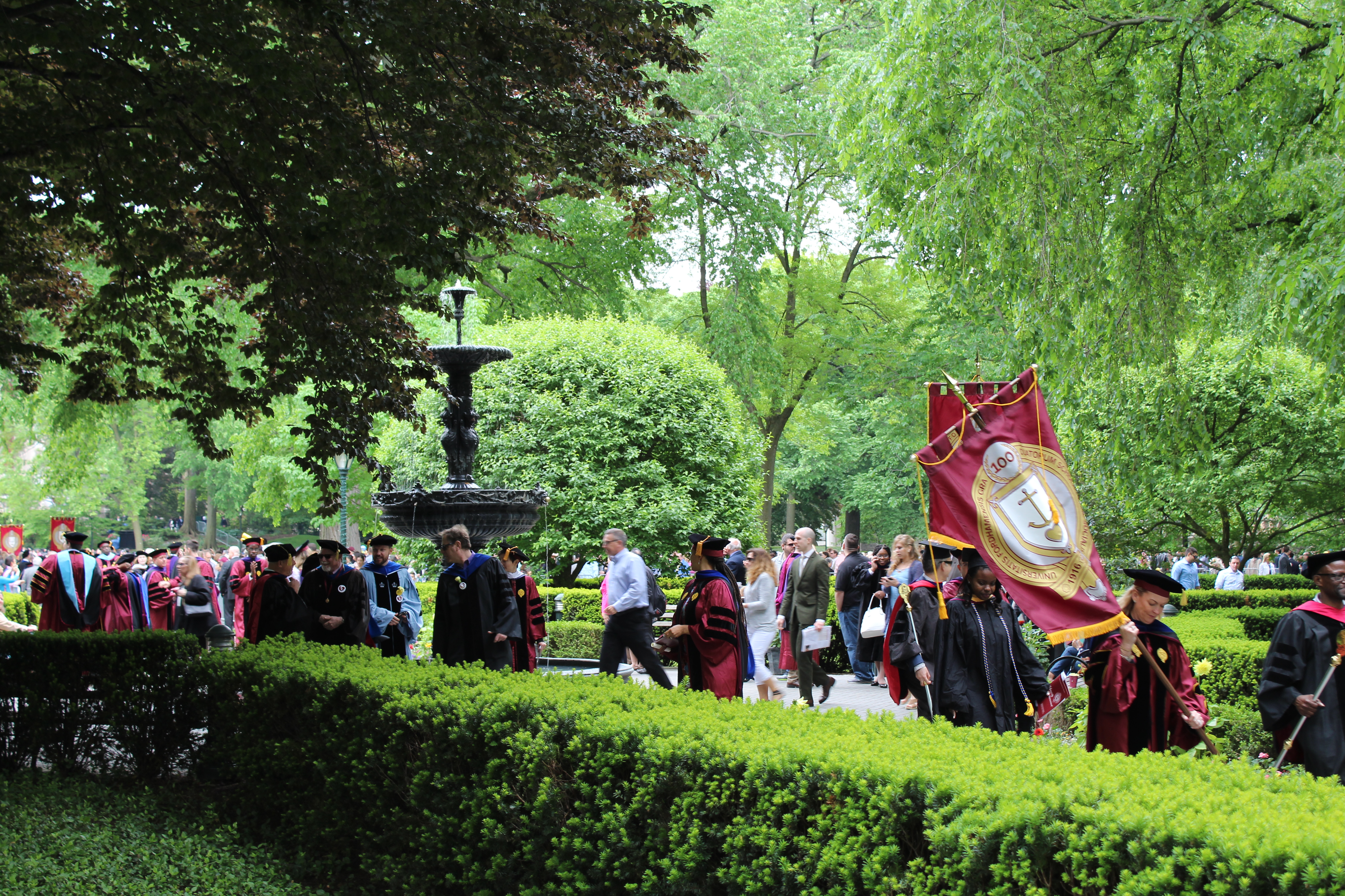 Fordham University during 2017 commencement